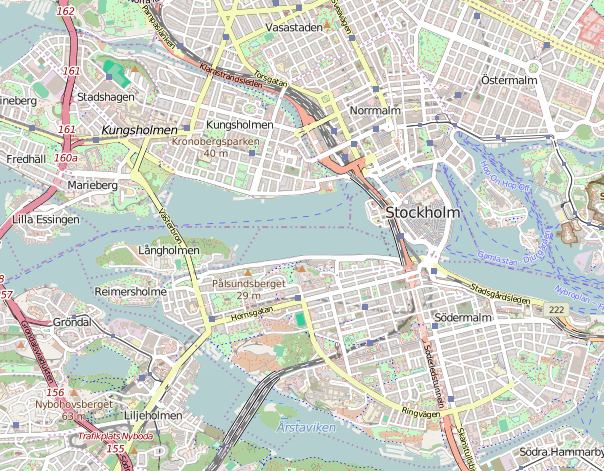 Map of central Stockholm.